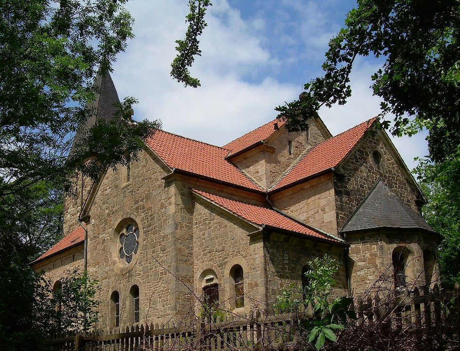 Protestant church in Dortmund-Eichlinghofen